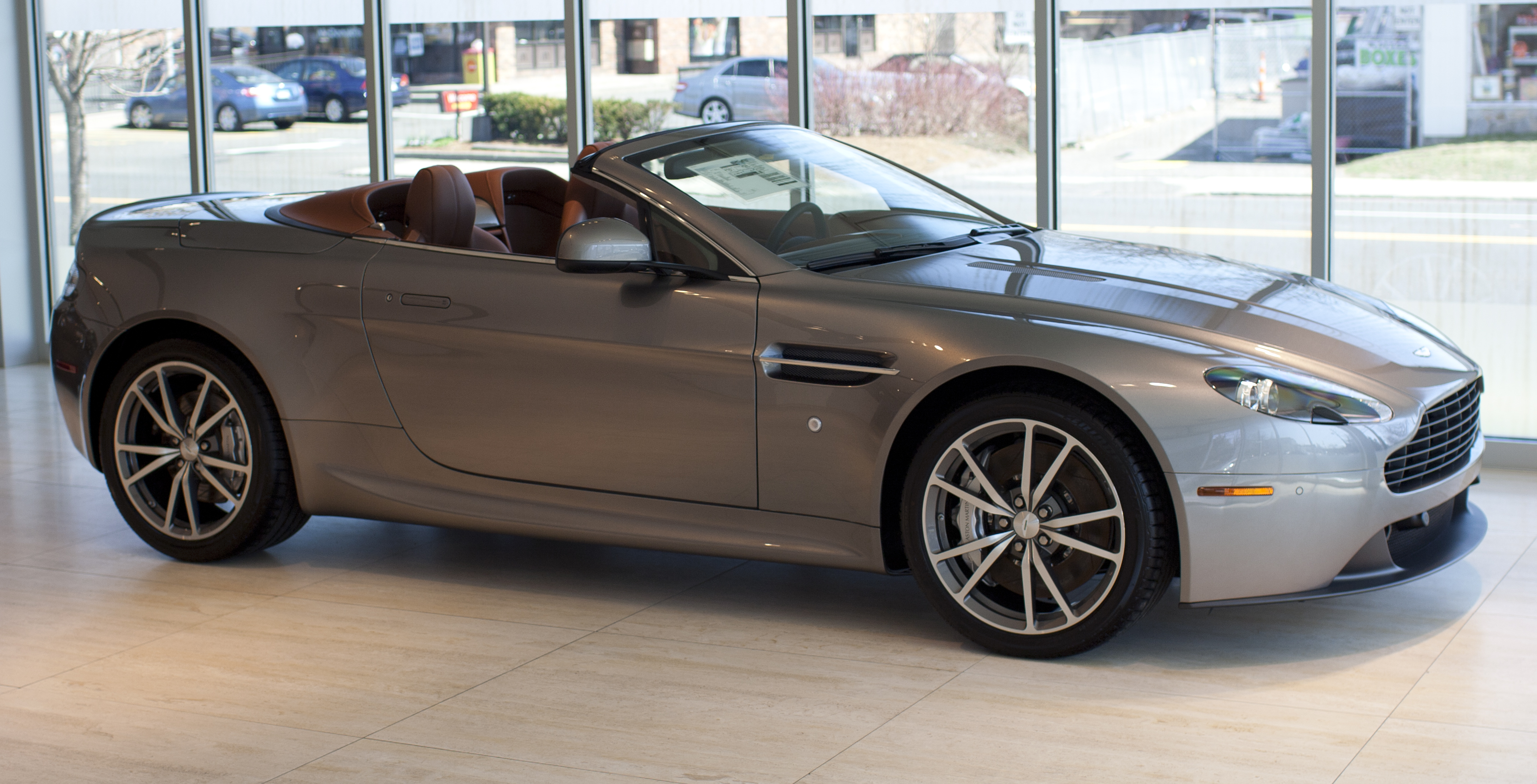 2013 Aston Martin V8 Vantage Roadster in Meteorite Silver, with Chancellor Red interior